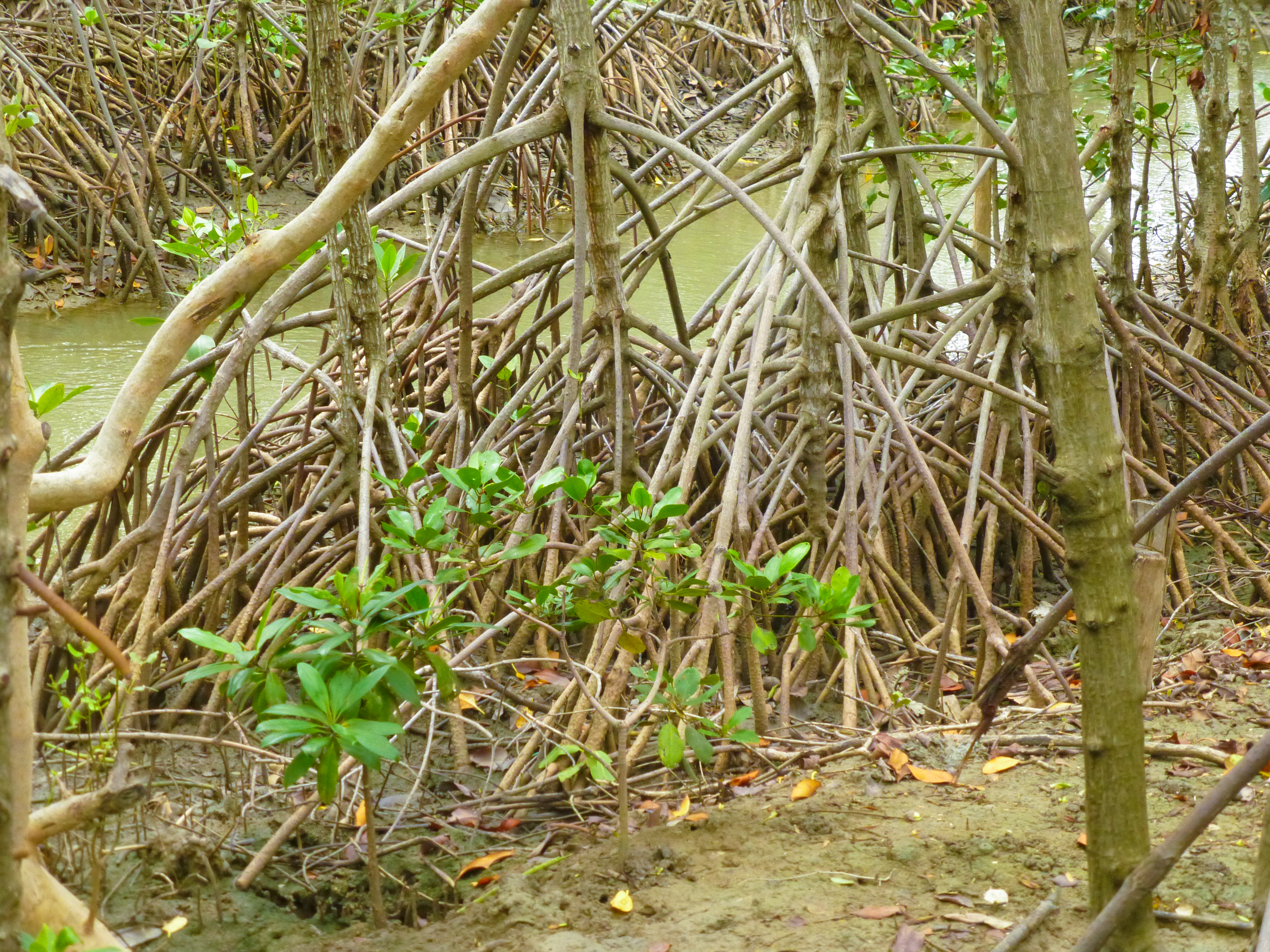 Mangroves in Thailand